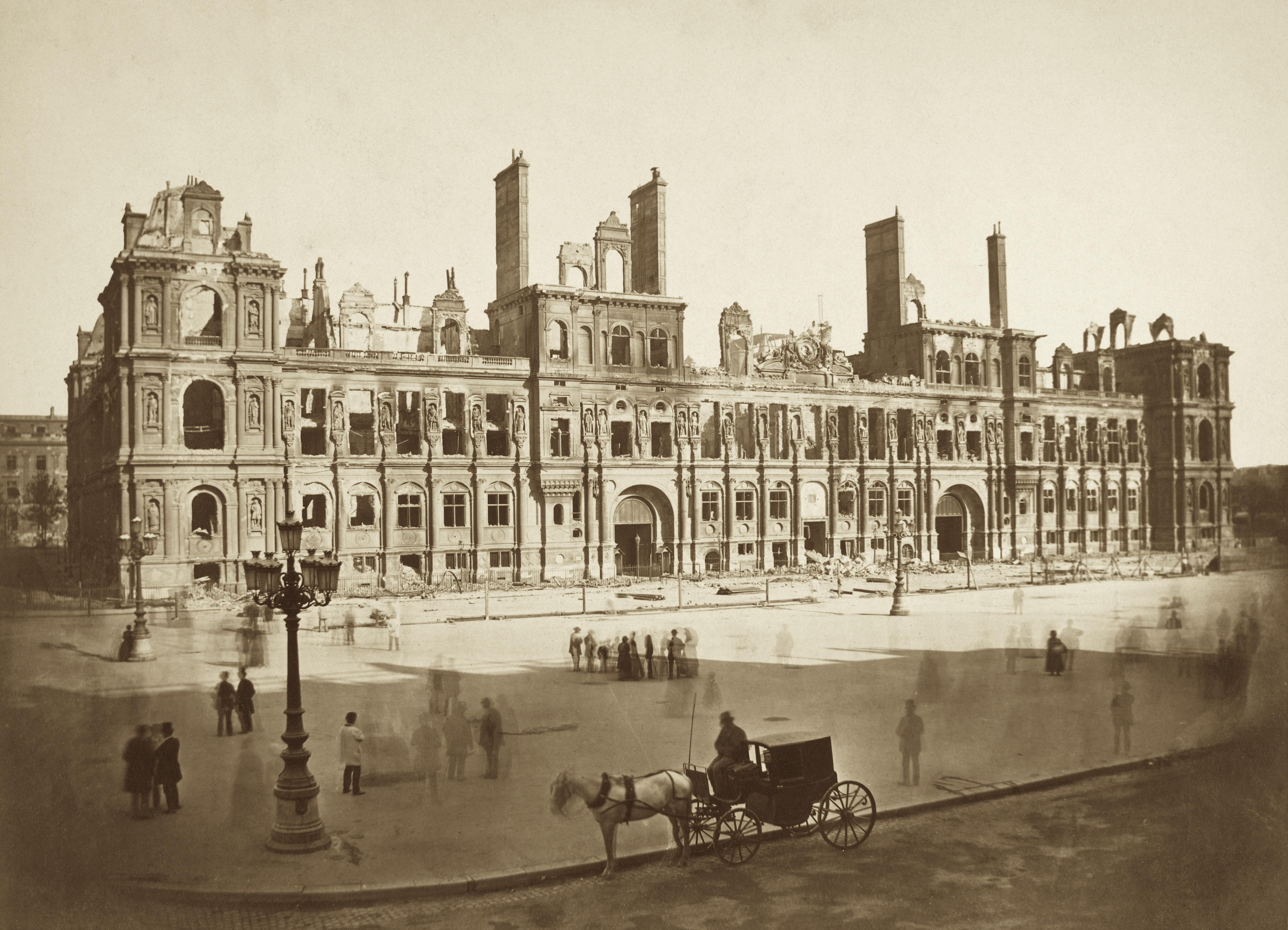 Locals and tourists alike gawked at the remains of the Paris city hall, built beginning in 1532 and completed nearly a century later. Along with treasured paintings and sculptural decoration, historically precious archives of the City of Paris were forever lost when the building was set ablaze in May 1871. A reconstruction of the Hôtel de Ville, begun in 1874 and completed a decade later, stands on the same site today.